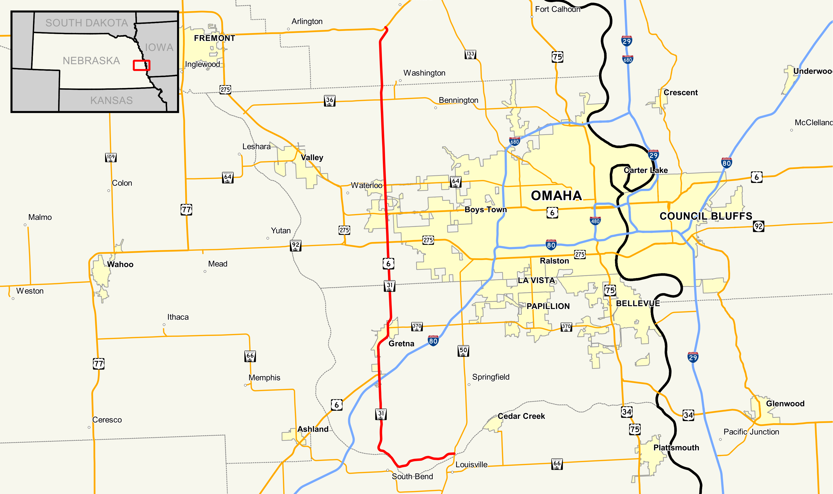 Map of Nebraska Highway 31 Data Sources: Nebraska Highways - - Dec 2016 Nebraska County Boundaries - - Dec 2016 Nebraska City Boundaries - - Dec 2016 This PNG graphic was created with QGIS